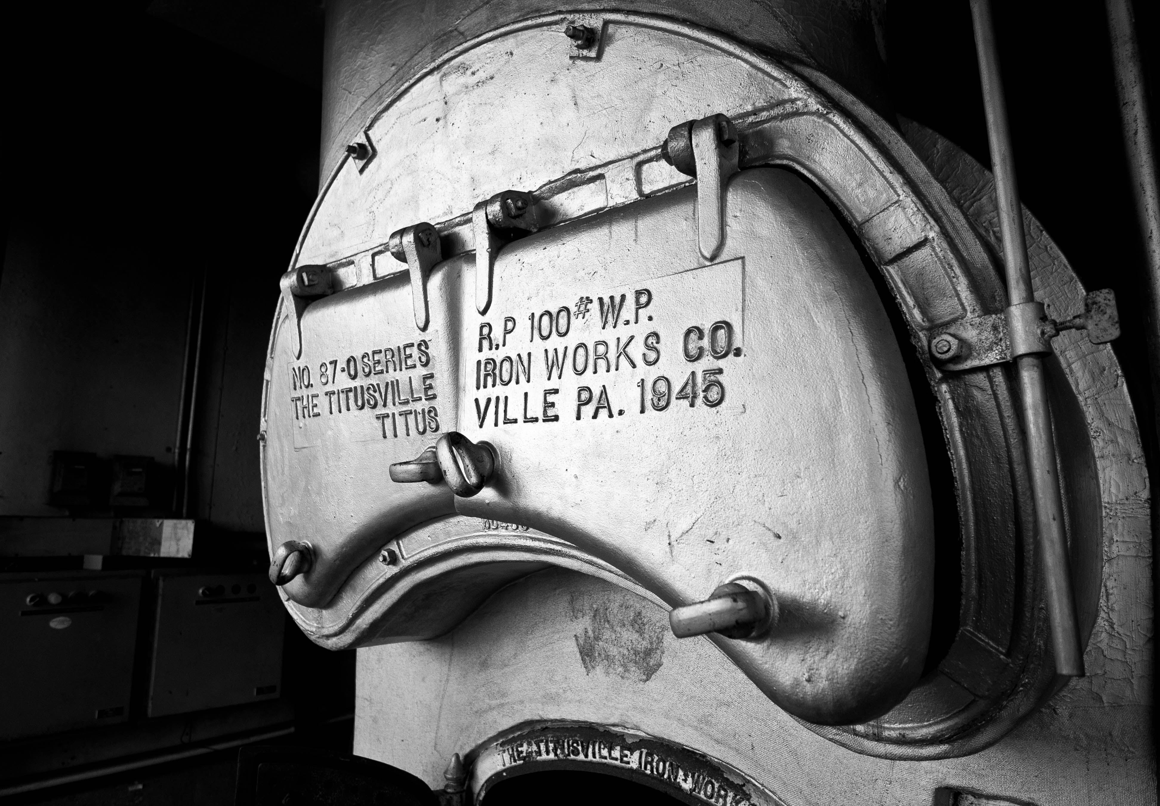 Mare Island Naval Shipyard